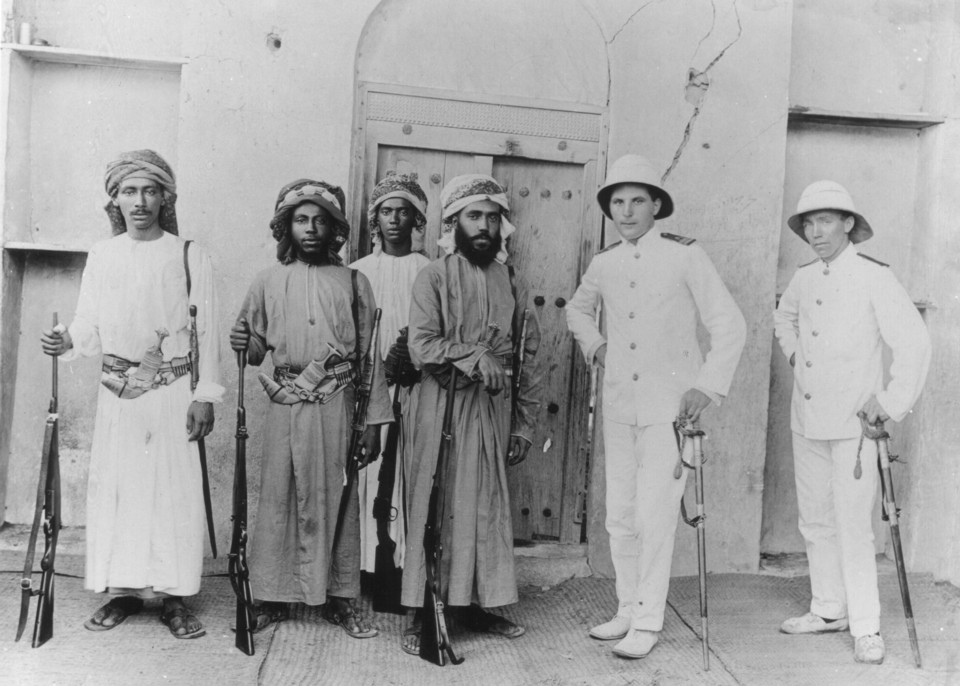 Taken Wednesday 22nd April 1914 at Barka (Birka, Bhala) Castle on the North East coast of Oman